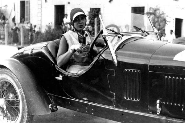 Italian racecar driver Anna Maria Peduzzi with the Alfa Romeo 6C 1500 Grand Sport Testa Fissa by Brianza (almost same as Zagato), that she had acquired in 1933, s/n 10814406.[1][2] The race may be Targa Abruzzi on 13 August 1933 (entry #4, 3rd in class) or Principessa Piemonte in Napoli on 8 October 1933 (perhaps too late to wear such short sleeves? Source: [3]